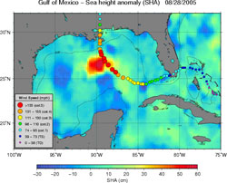 infrared depiction of sea height anomaly in Gulf of Mexico